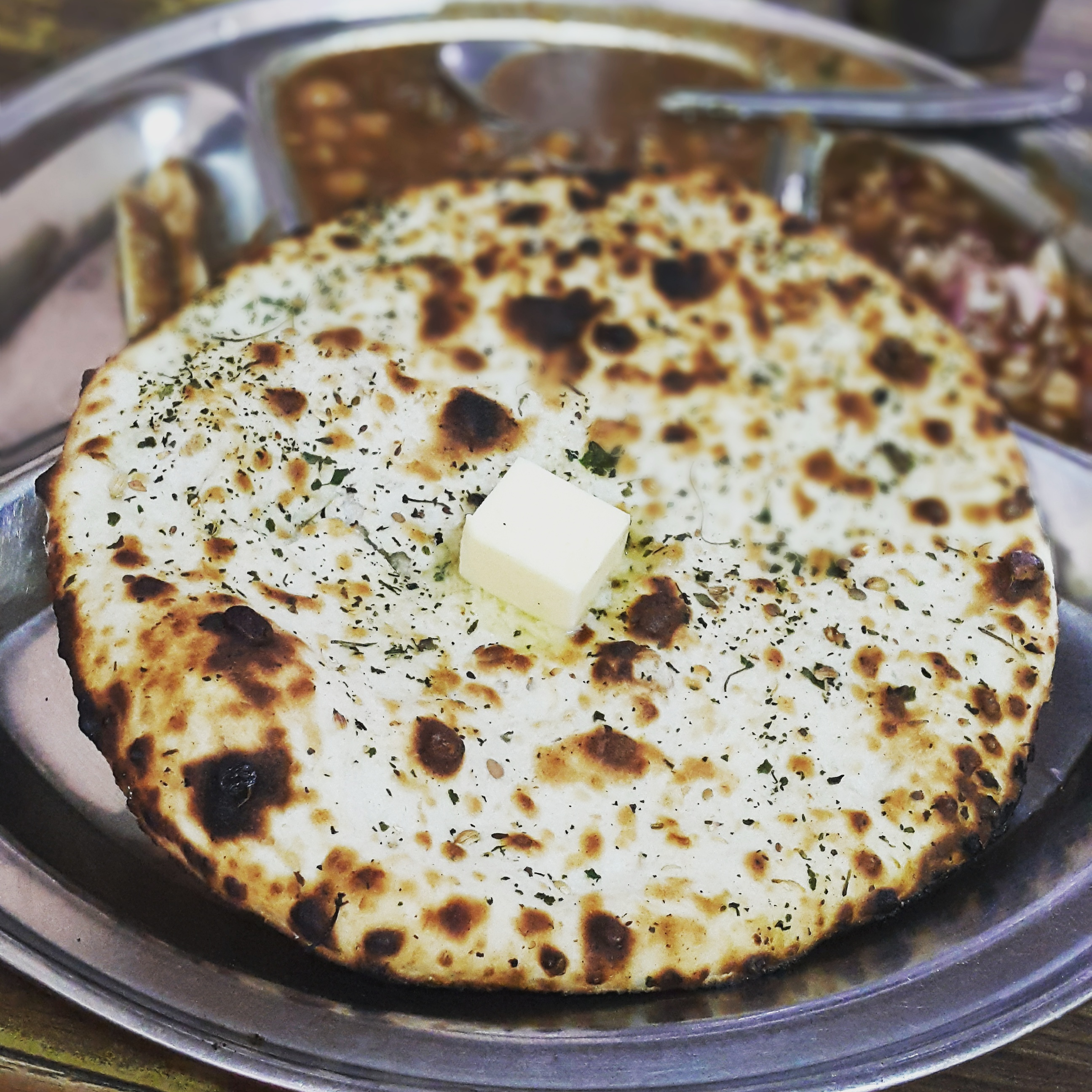 Stuffed tandoori naan